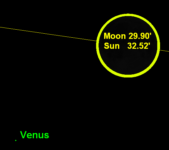 Solar eclipse of January 15, 2010